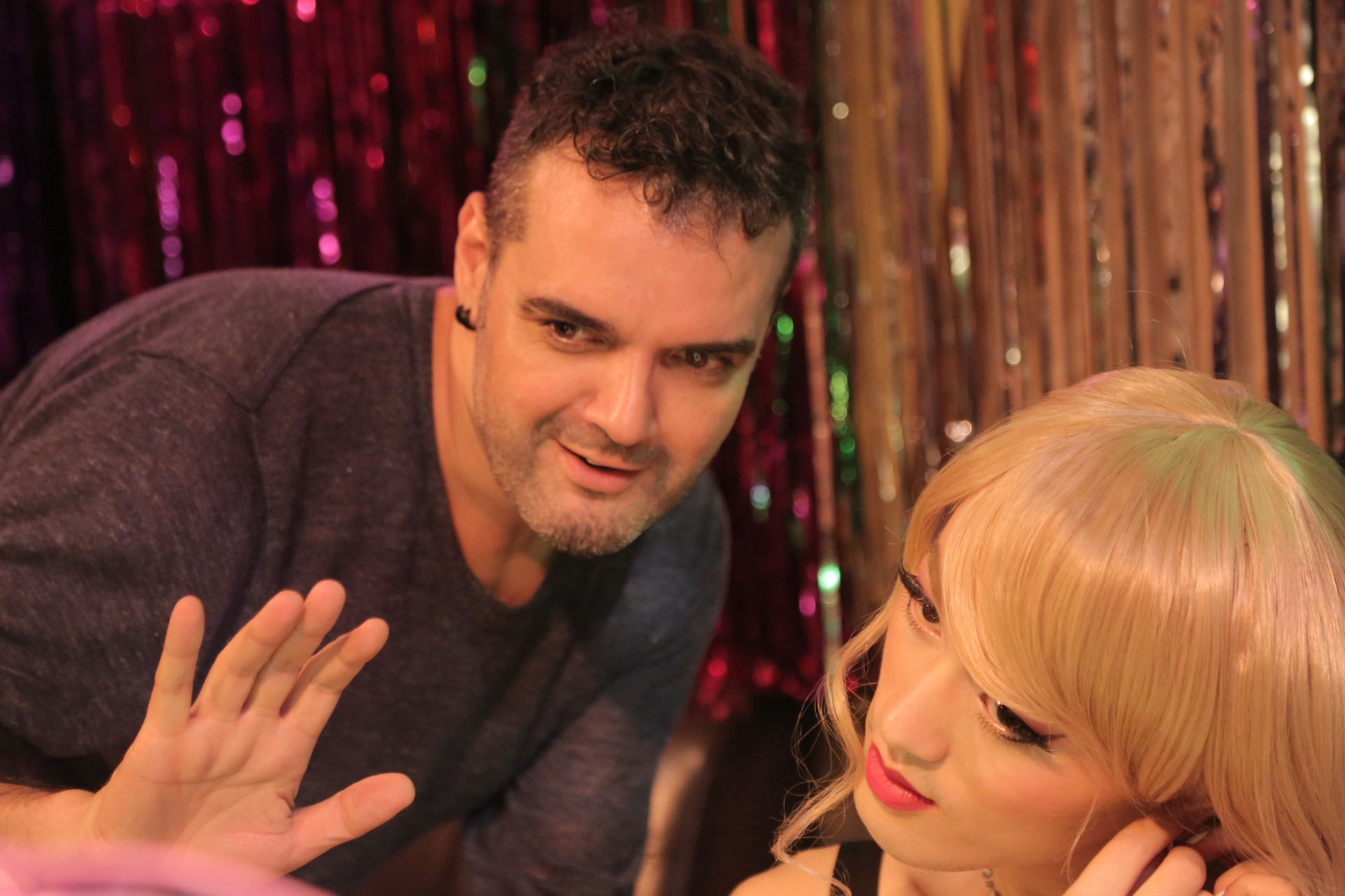 Sunken Plum (Dir. Roberto F. Canuto & Xu Xiaoxi), Trilogy "Invisible Chengdu". Behind the Scene picture with director Roberto F. Canuto and actor Zhang Zhi.